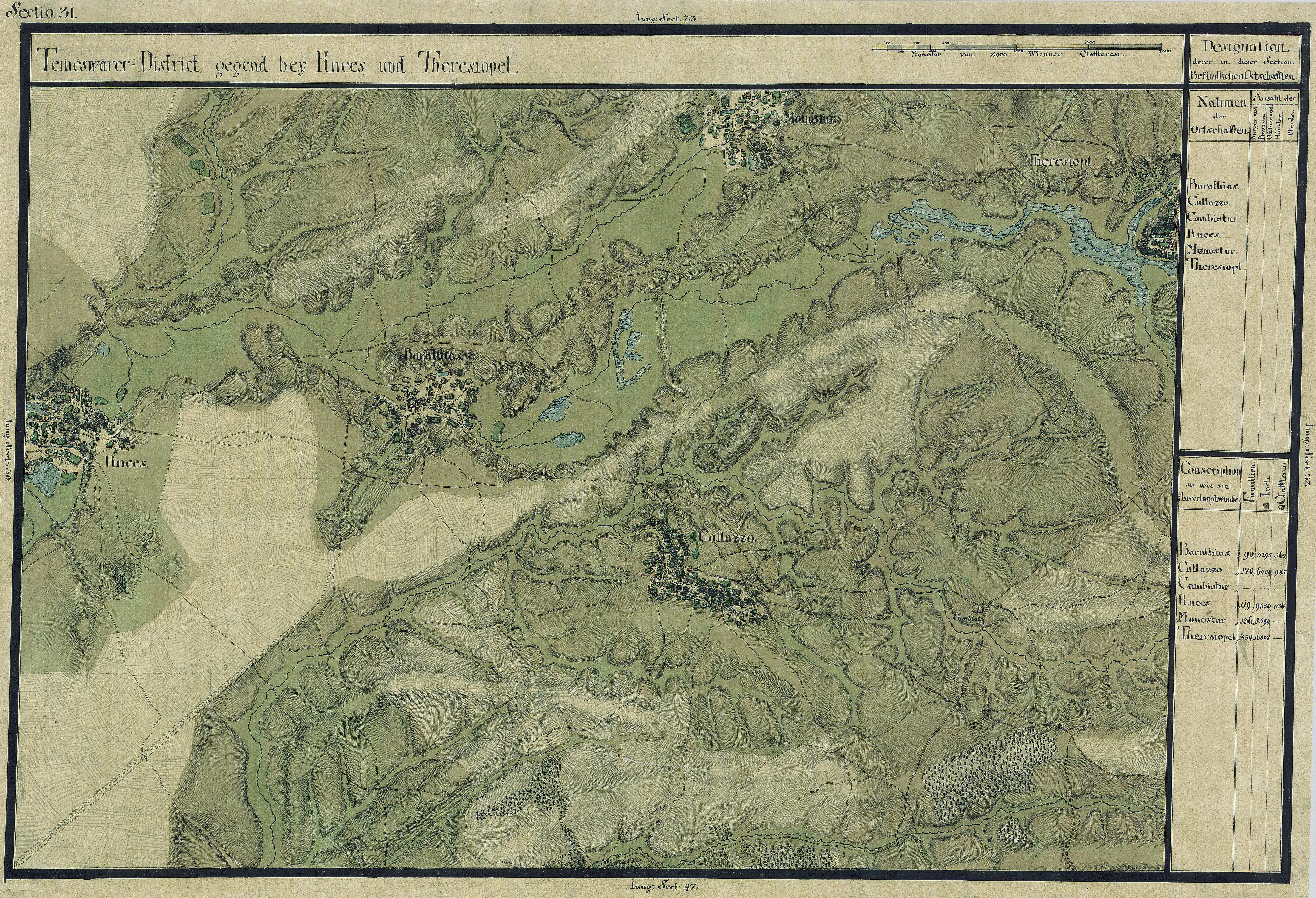 The Banat region in the cadastral maps: Josephinische Landesaufnahme, 1769-72. Josephinische Landaufnahme pg031